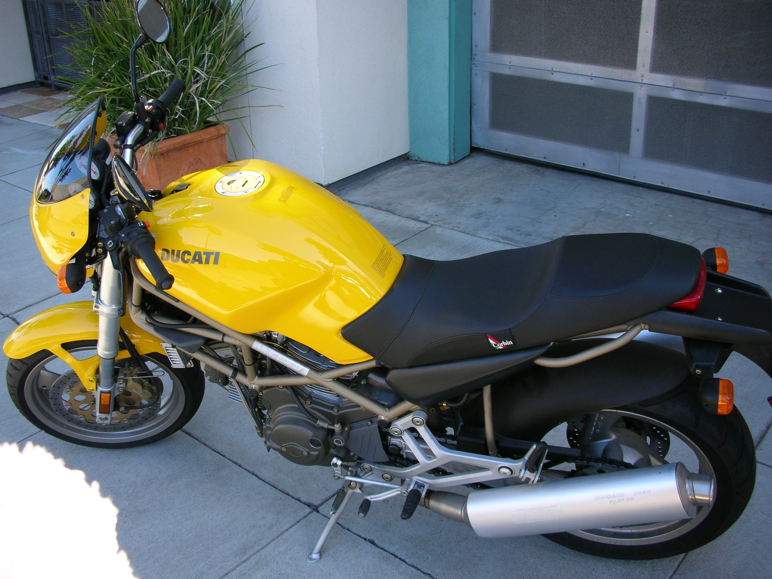 Ducati 750 Monster, 1998, only 3253 miles - like new... Corbin Monster Seat w/orginal backseat fairing set Front fairing Ducati orginal parts